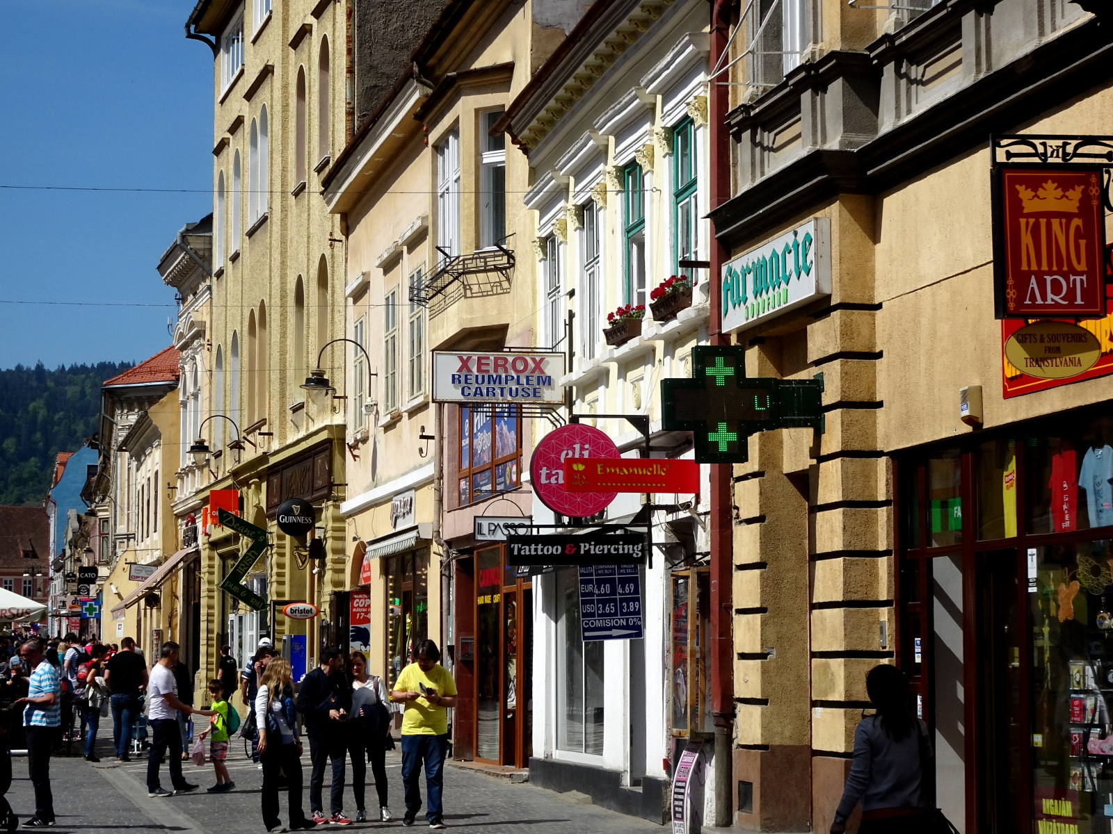 Republicii street in Brasov, northwest side